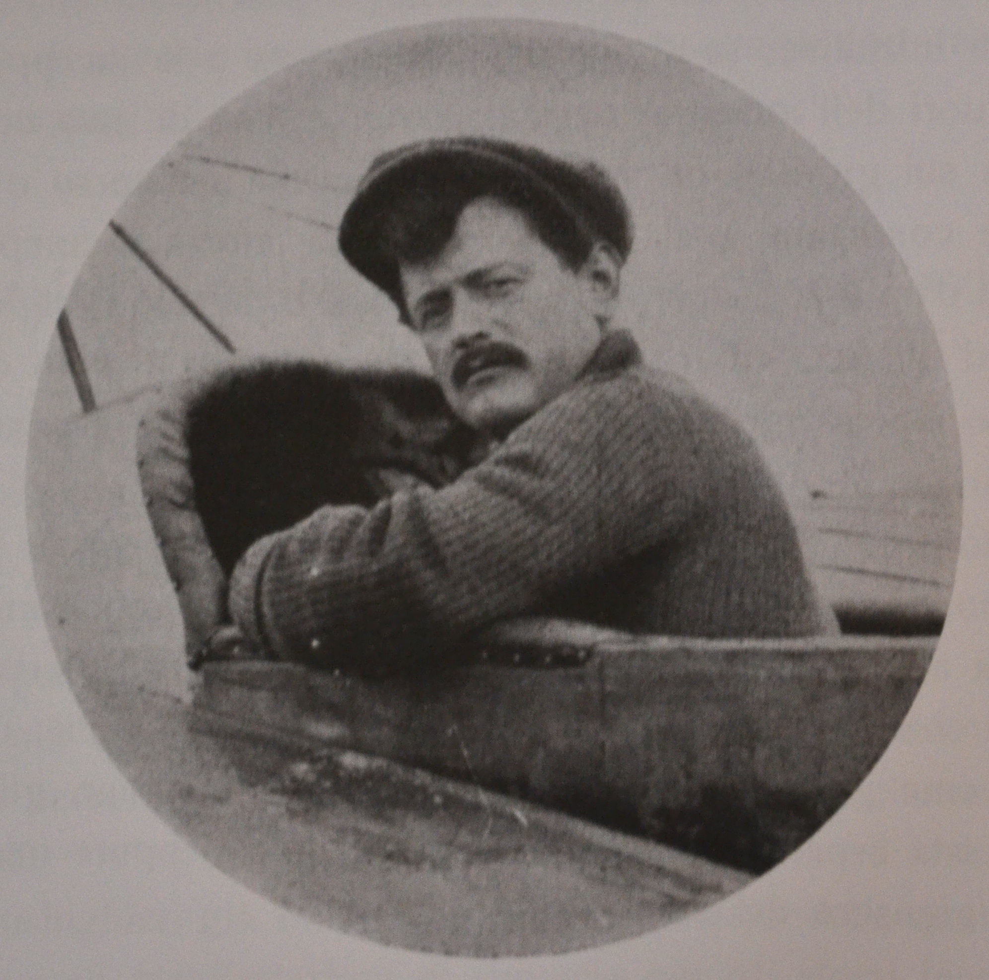 Italian pilot Enrico Cobioni shortly before leaving Vizzola Ticino for Milan on April 14, 1912. The Vizzola Ticino-Milan-Vizzola Ticino raid took 55 minutes and was completed successfully.